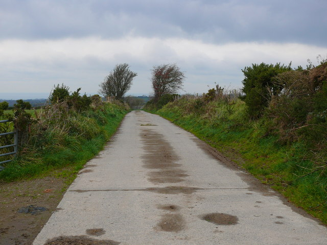 Mynedfa i Ffoshelyg-uchaf / Entrance to Ffoshelyg-uchaf Lon concrit yn arwain at Ffoshelyg-uchaf / Concrete road leading to Ffoshelyg-uchaf